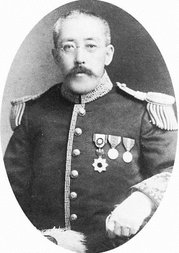 Yoshinari Satake